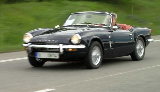 Triumph Spitfire Mk3 from 1968